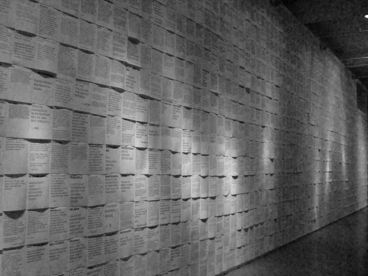 American artist Yazmany Arboleda's installation at the Art Directors Club in New York City for the exhibition of the "Keller Gates Project"